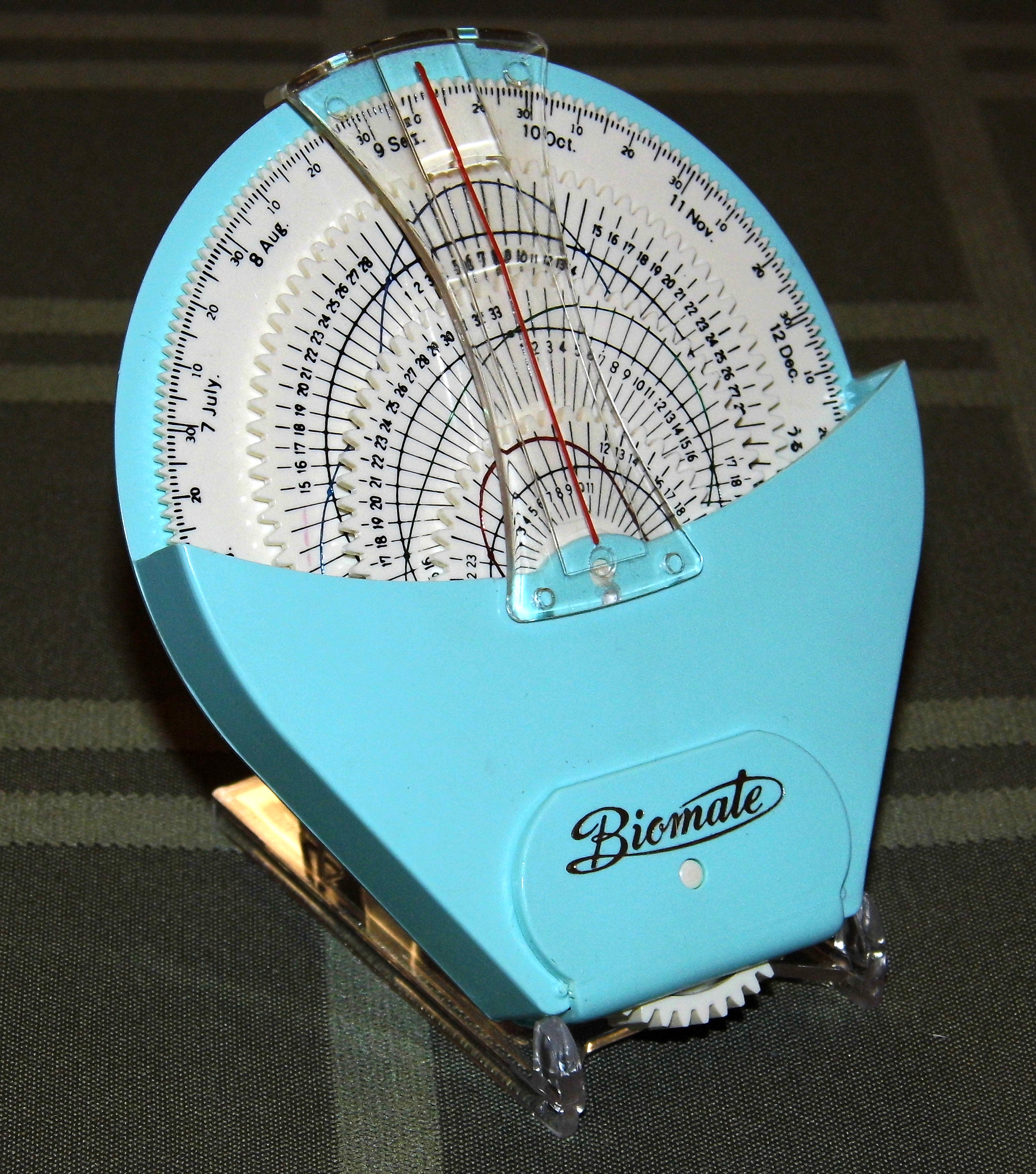 Vintage Biomate Handheld Biorhythm Calculator, Certified by the Japan Biorhythm Association, Circa 1970s